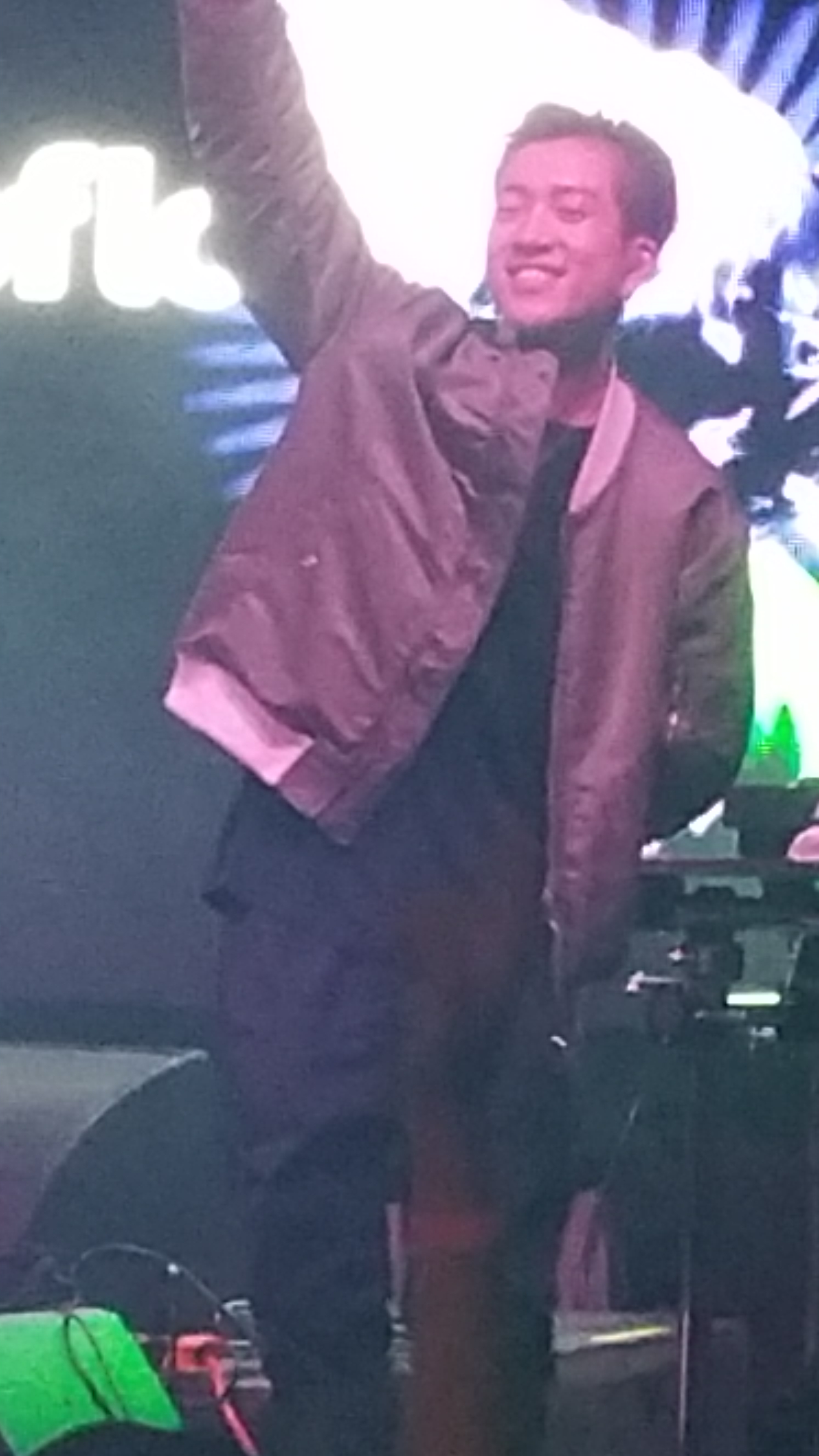 Junoflo performing at "Korea Spotlight", SXSW 2018, The Belmont, 305 West 6th Street, Austin, Texas.